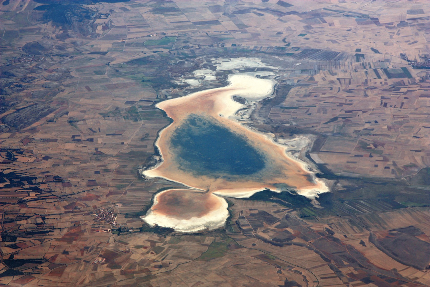 Laguna de Gallocanta - endorheic lake in Aragon, Spain.